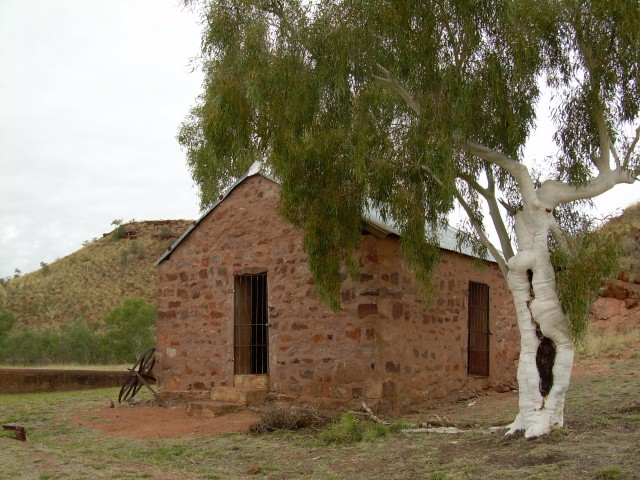 Outhouse at old Barrow Creek overland telegraph station